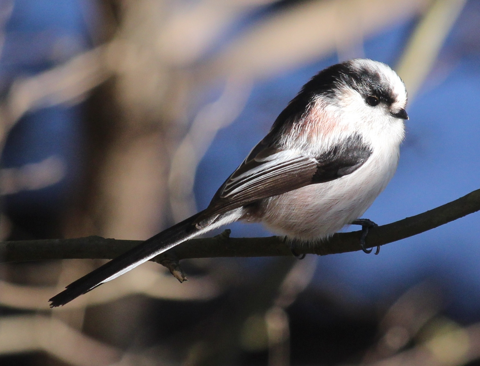 Long-tailed Tit (Aegithalos caudatus trivirgatus) in Mount Noko, Gifu prefecture, Japan.